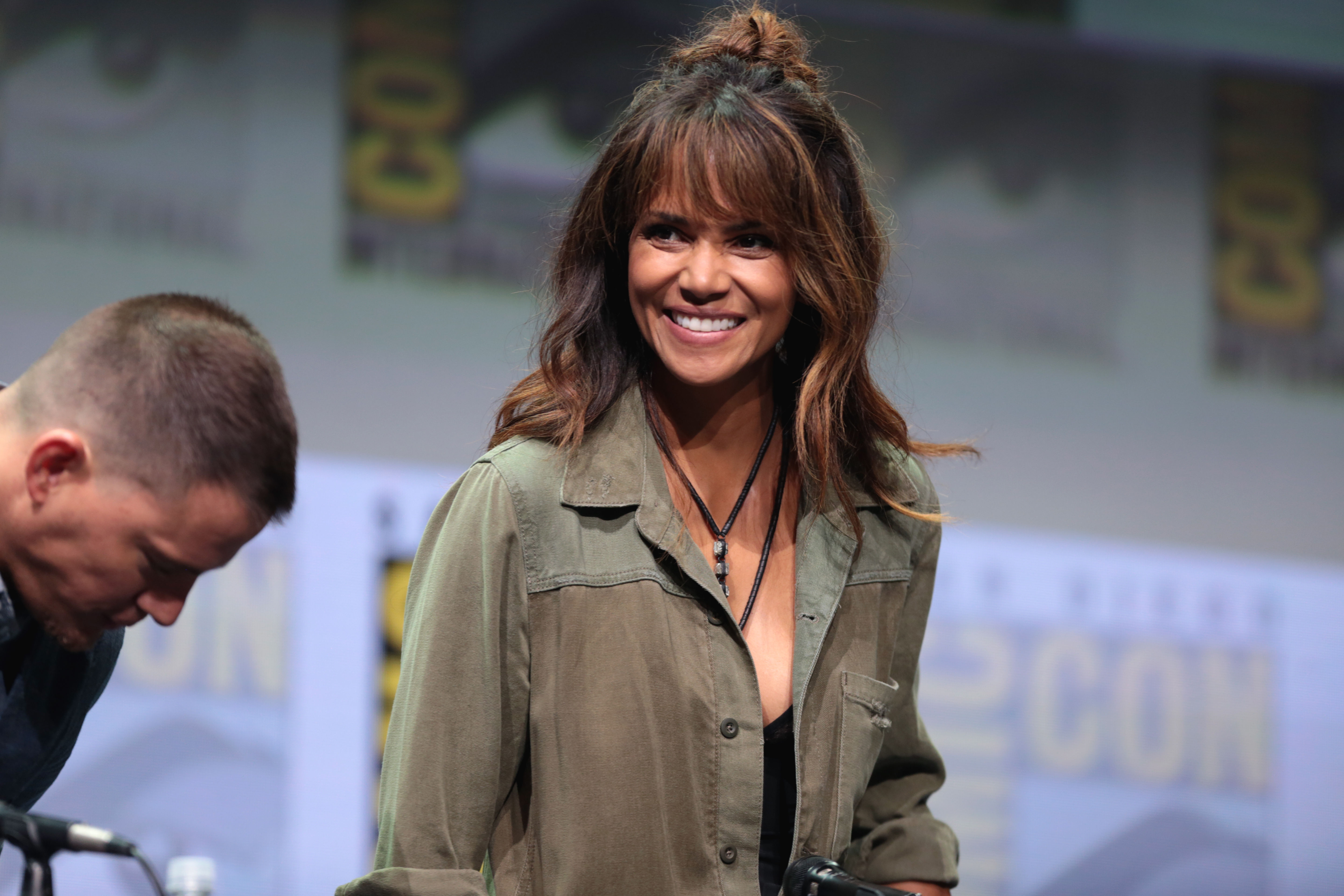 Halle Berry speaking at the 2017 San Diego Comic Con International, for "Kingsman: The Golden Circle", at the San Diego Convention Center in San Diego, California.